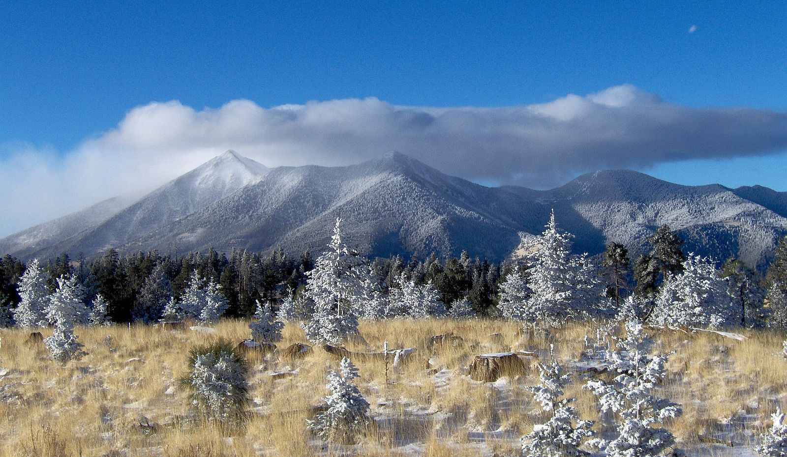 The San Francisco Peaks as viewed from Elden Mountain in winter